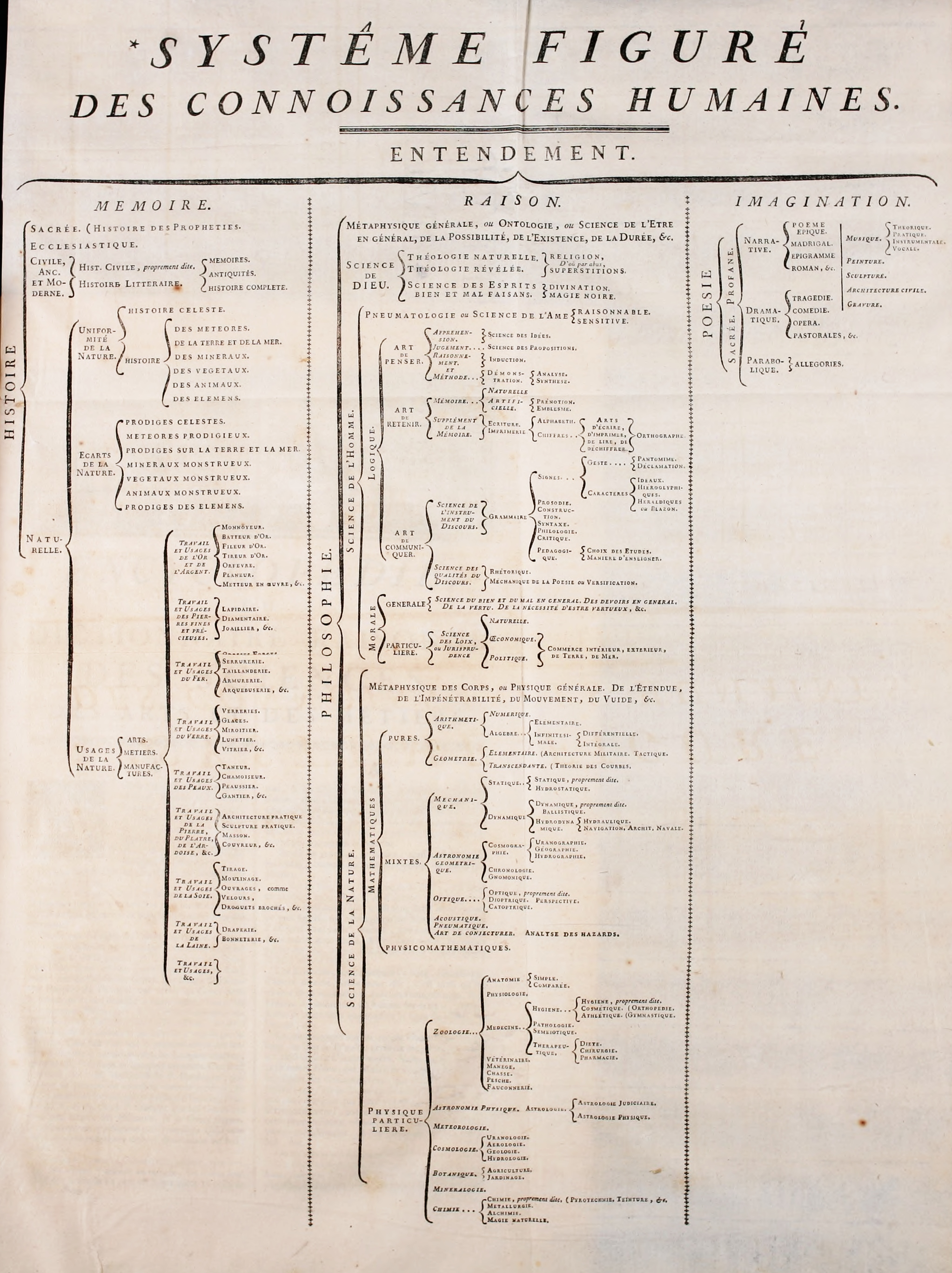 "Figurative System of organisation of human knowledge from the Encyclopédie. For an English translation see: Figurative system of human knowledge